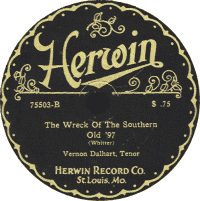 The Wreck of the Southern Old '97 by Vernon Dalhart, Herwin Records (prob. late 1925).